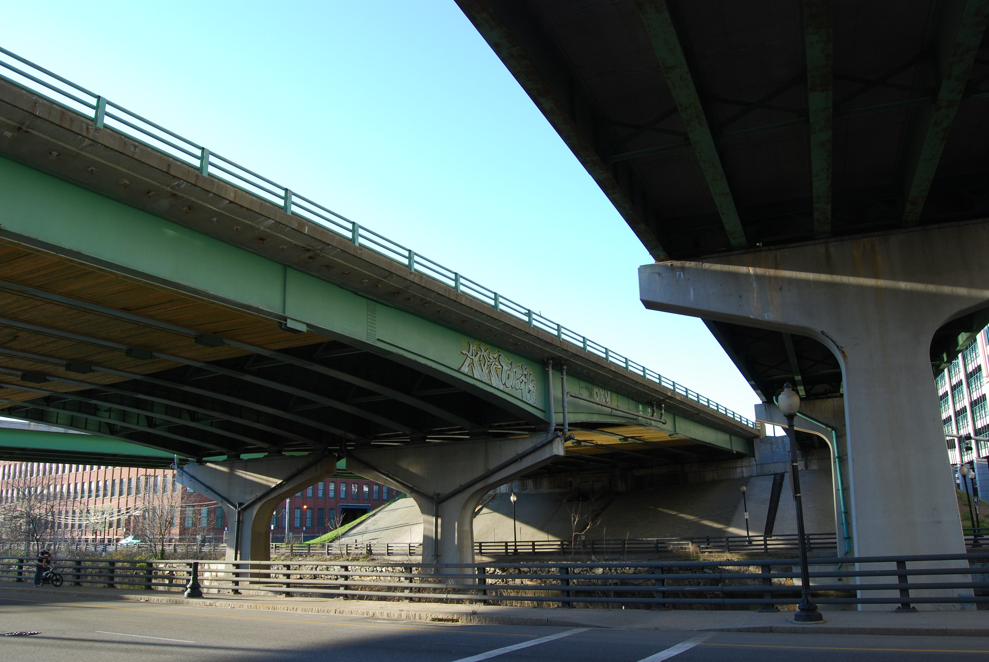 Providence Viaduct (on the left), carries Interstate 95 over the Woonasquatucket River in Providence, Rhode Island. The viaduct is flanked on each side by on/off ramps near Providence Place mall.